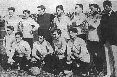 The Uruguay national football team before playing a match in the Campeonato Sudamericano. Uruguay won that tournament. From left to right (Up): J. Pacheco, J. Vanzzino, C. Saporiti, G. Rodríguez, M. Varela, A. Foglino. (Down): J. Perez, H. Scarone, A. Romano, C. Scarone, P. Somma.